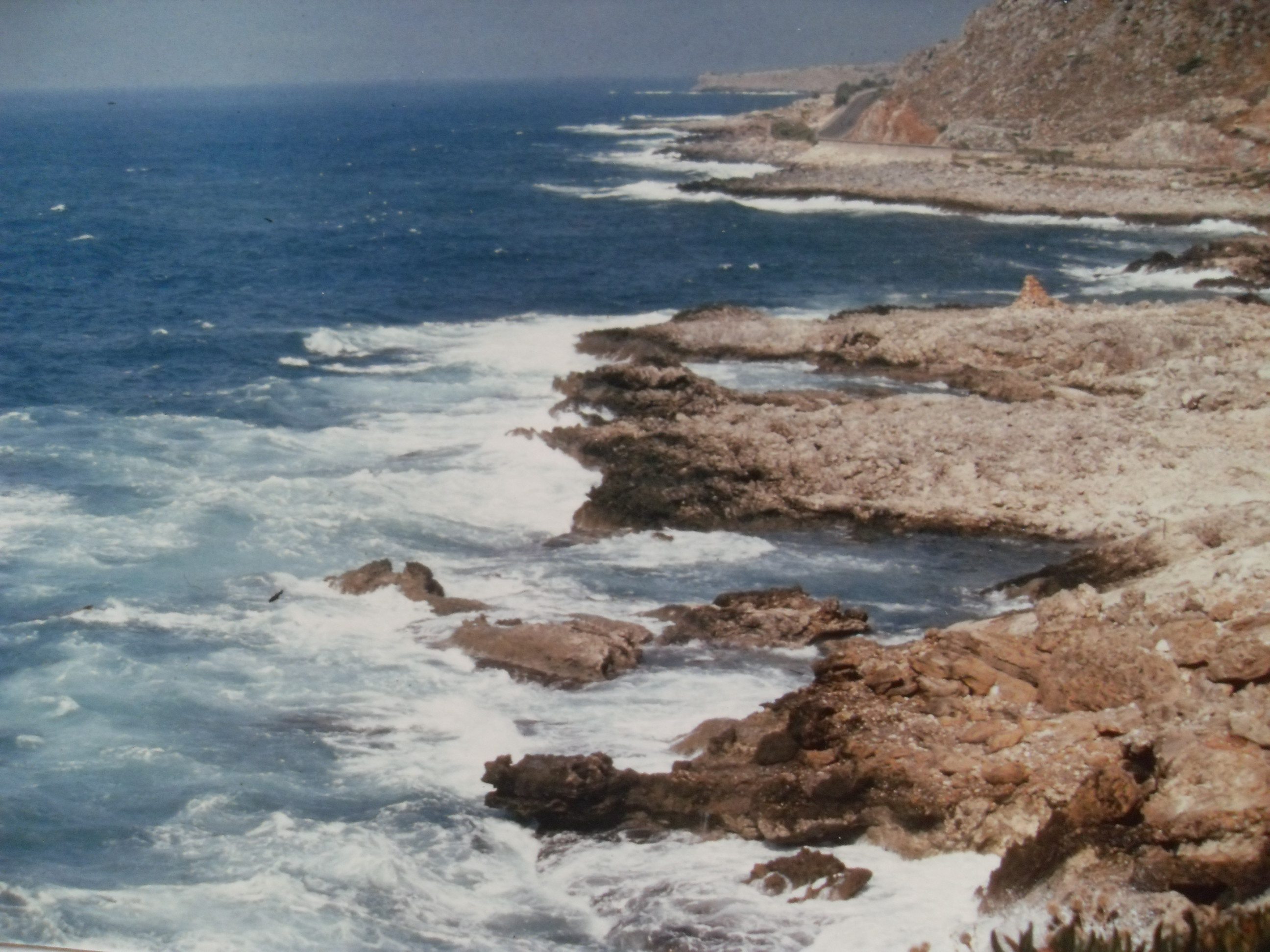 Crete Northcoast